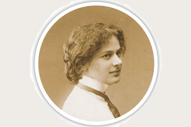 Portrait of the Russian mathematician Nadeschda Gernet (1877-1943)